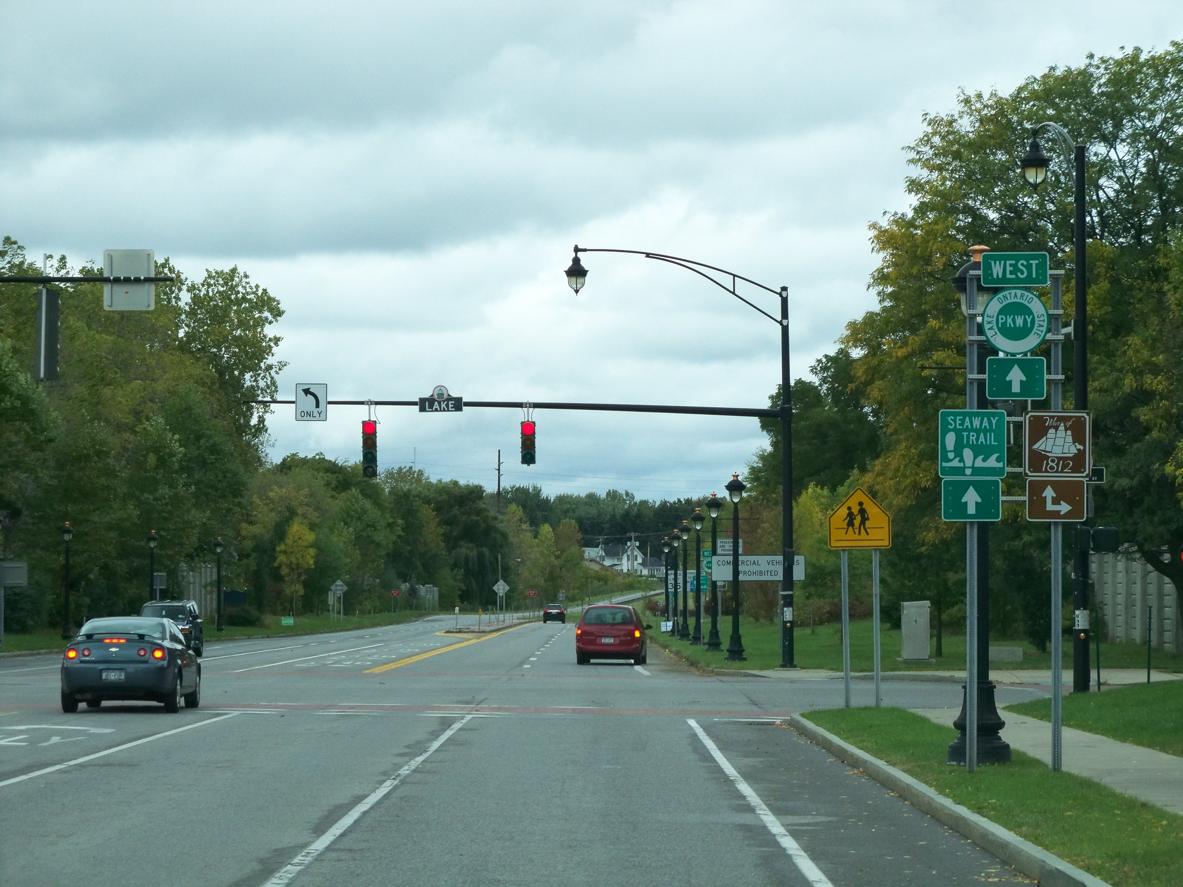 Eastern terminus of the Lake Ontario State Parkway at Lake Avenue in Charlotte, Rochester, New York, as seen from Pattonwood Drive.